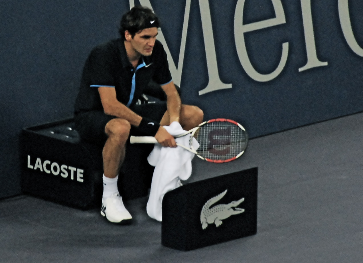 Roger Federer against Andy Murray at the 2008 Tennis Masters Cup